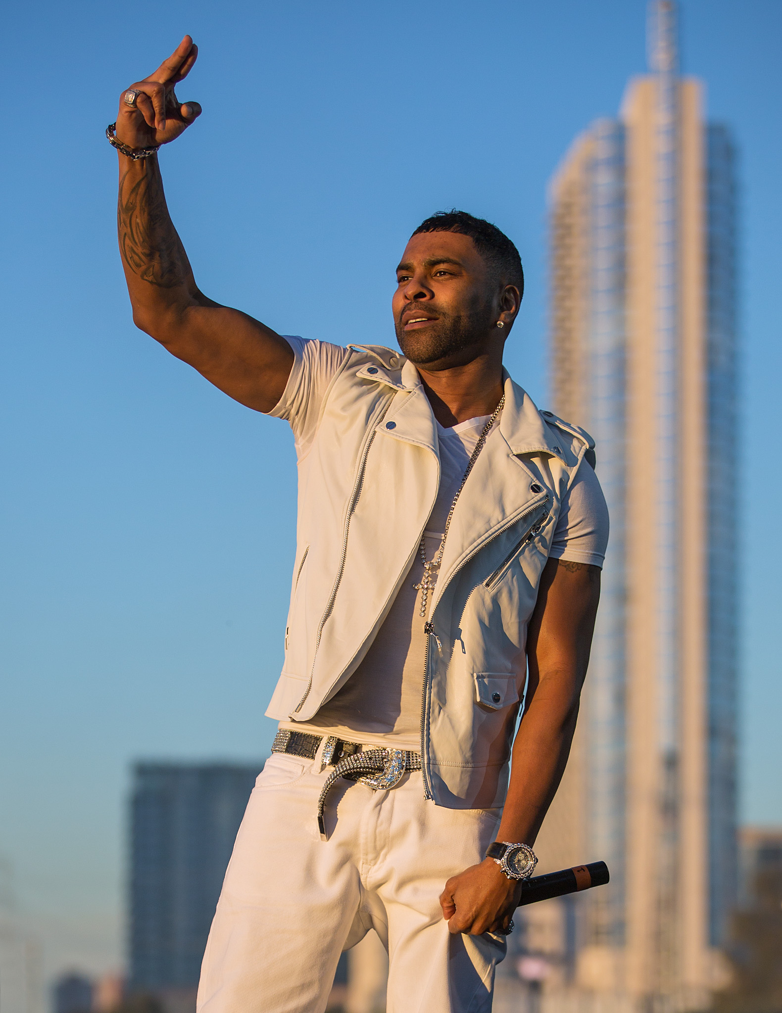 Ginuwine performing at Fun Fun Fun Fest in Austin, Texas, 2014-11-07.